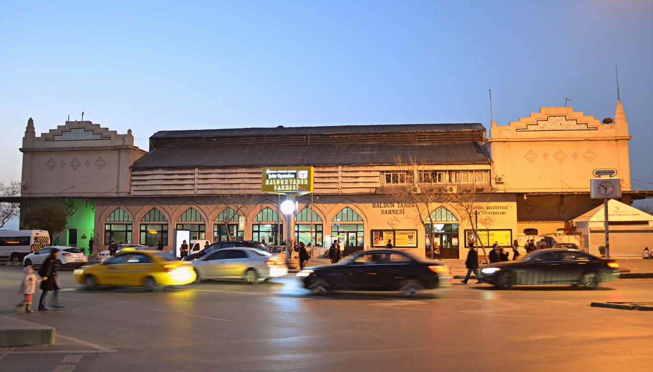 Hâldun Taner StageTürkçe: Hâldun Taner Sahnesi